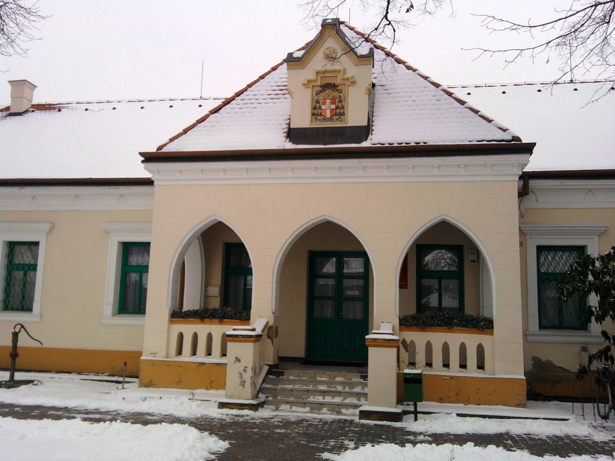 Hronovce